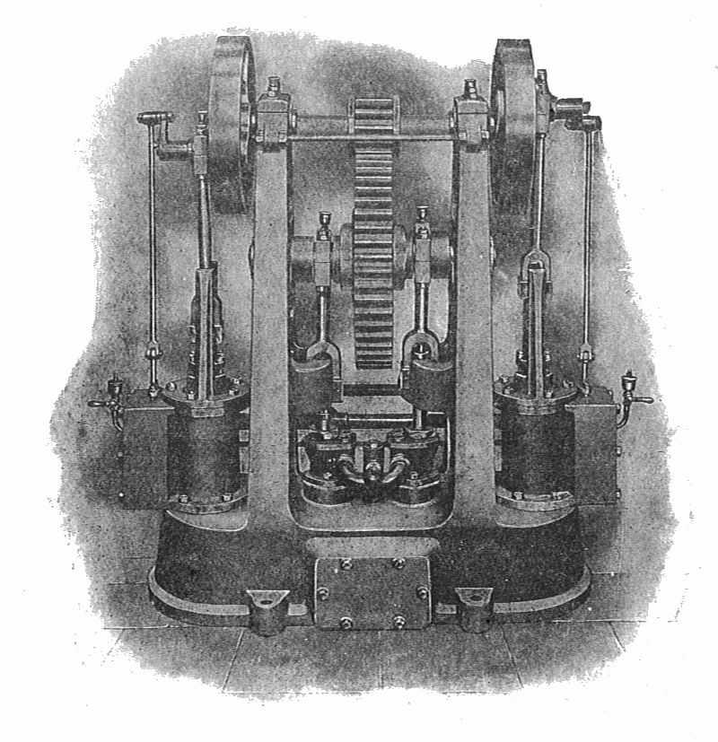 Steam hydraulic pump (Rankin Kennedy, Modern Engines, Vol VI).jpgFig. 135 Steam Hydraulic Pumps